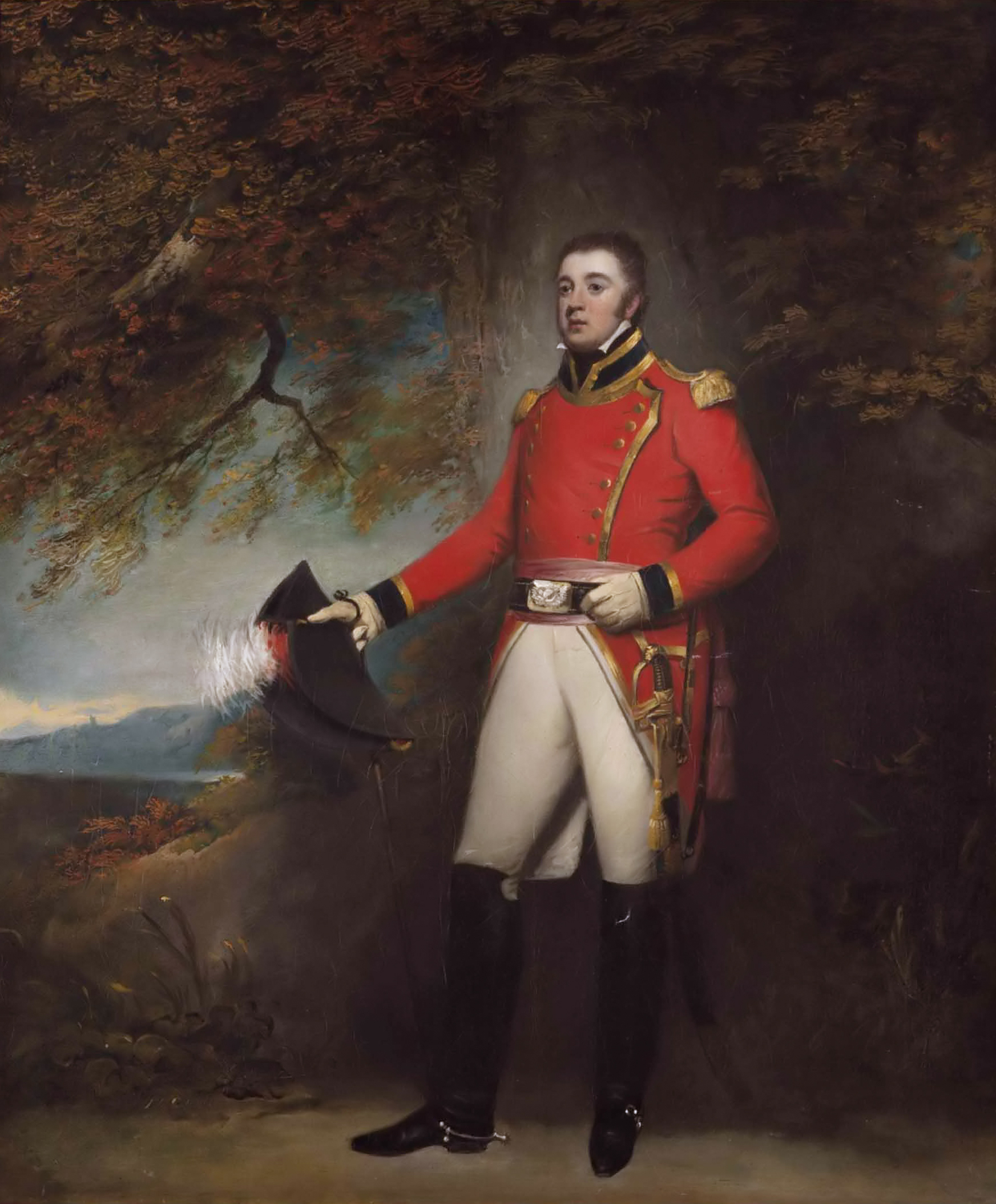 Captain and Lieutenant-Colonel Robert Dalrymple (1766-1848) became the first Sir R.D. Horn-Elphinstone Bt in 1828 oil on canvas 73.6 x 63.5 cm signed b.l.: J.W.C. 1799